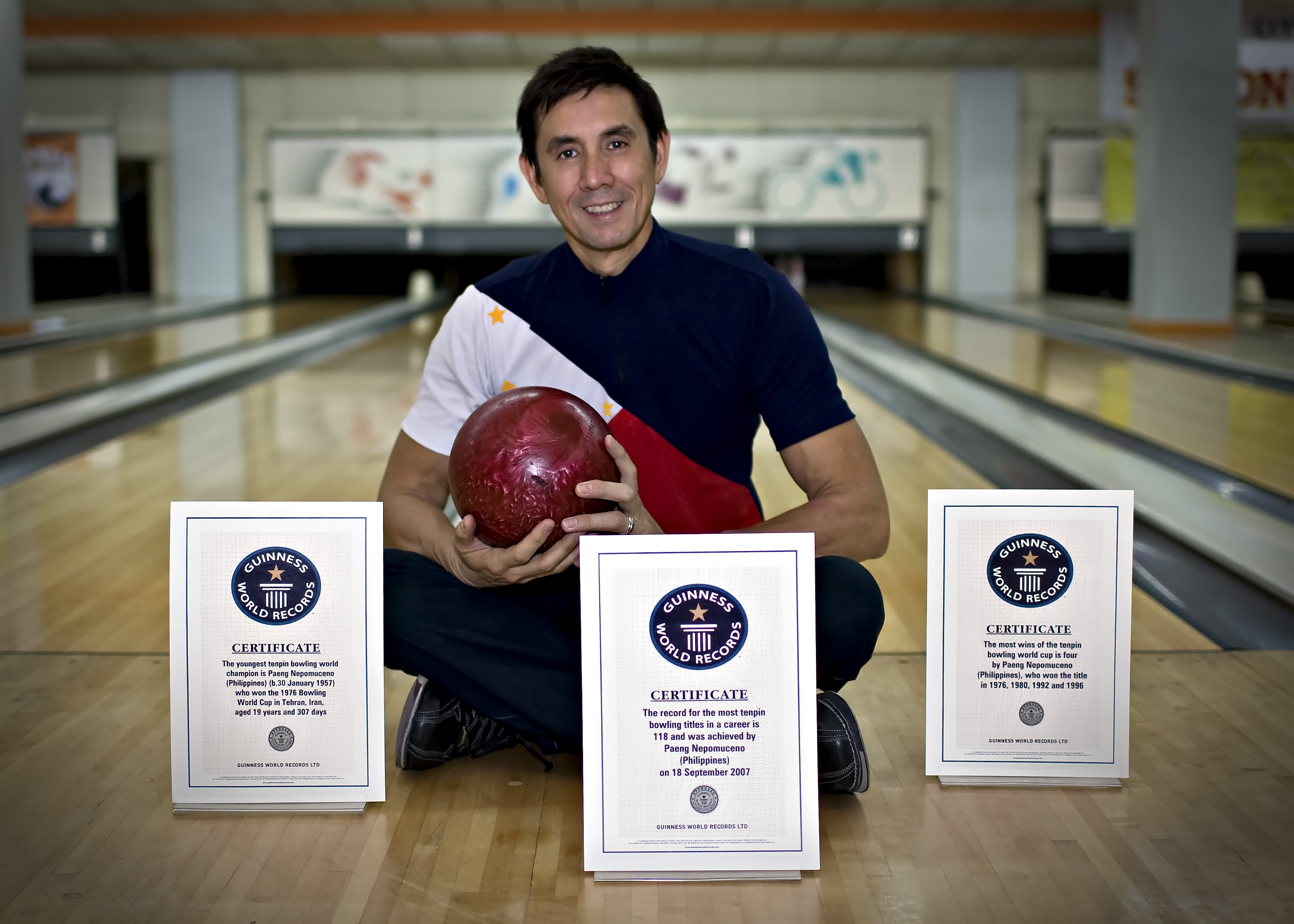 Paeng Nepomuceno and certificates of his three world records.